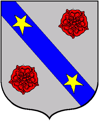 Coat of Arms of the Finnish Lohjelm family, introduced as family number 1302 at the Swedish House of Lords. Created by the program Blazon! (with additional fine-tuning) from the blazon Argent, a Bend Azure, two Roses In Bend Sinister Gules, two Mullets In Bend Or